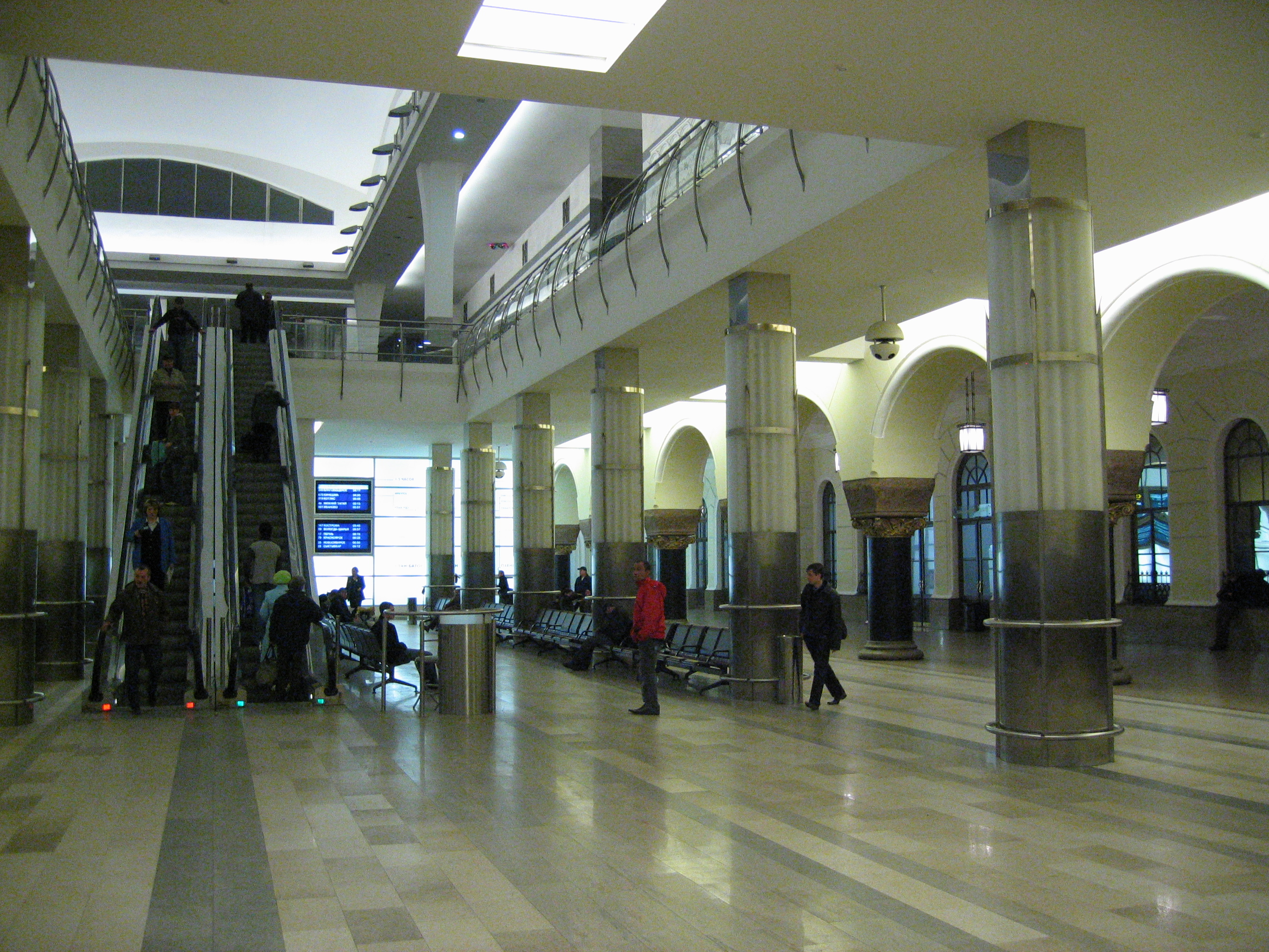 Moscow's Yaroslavsky rail terminal